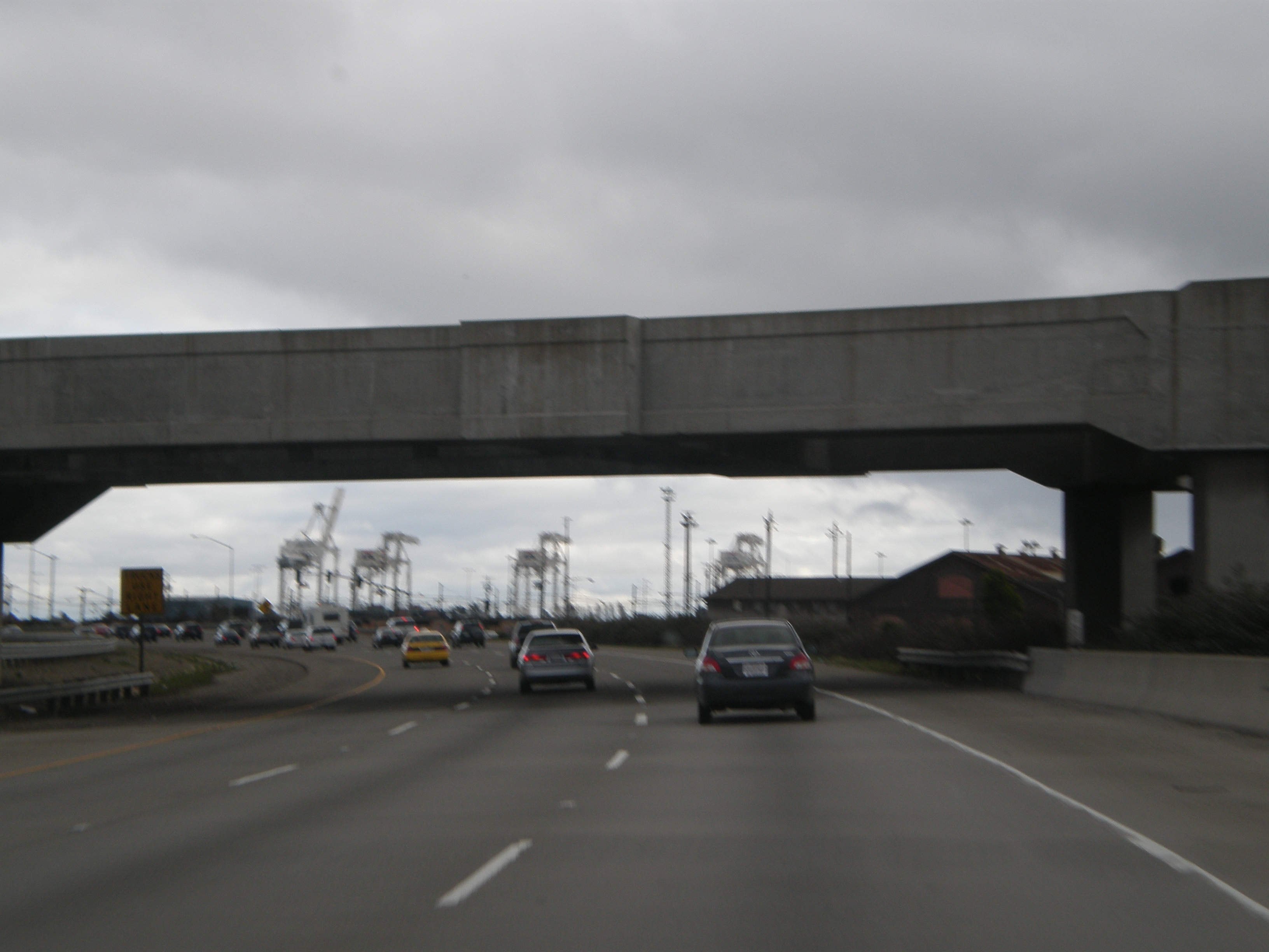 Interstate 880 South through Oakland, California.